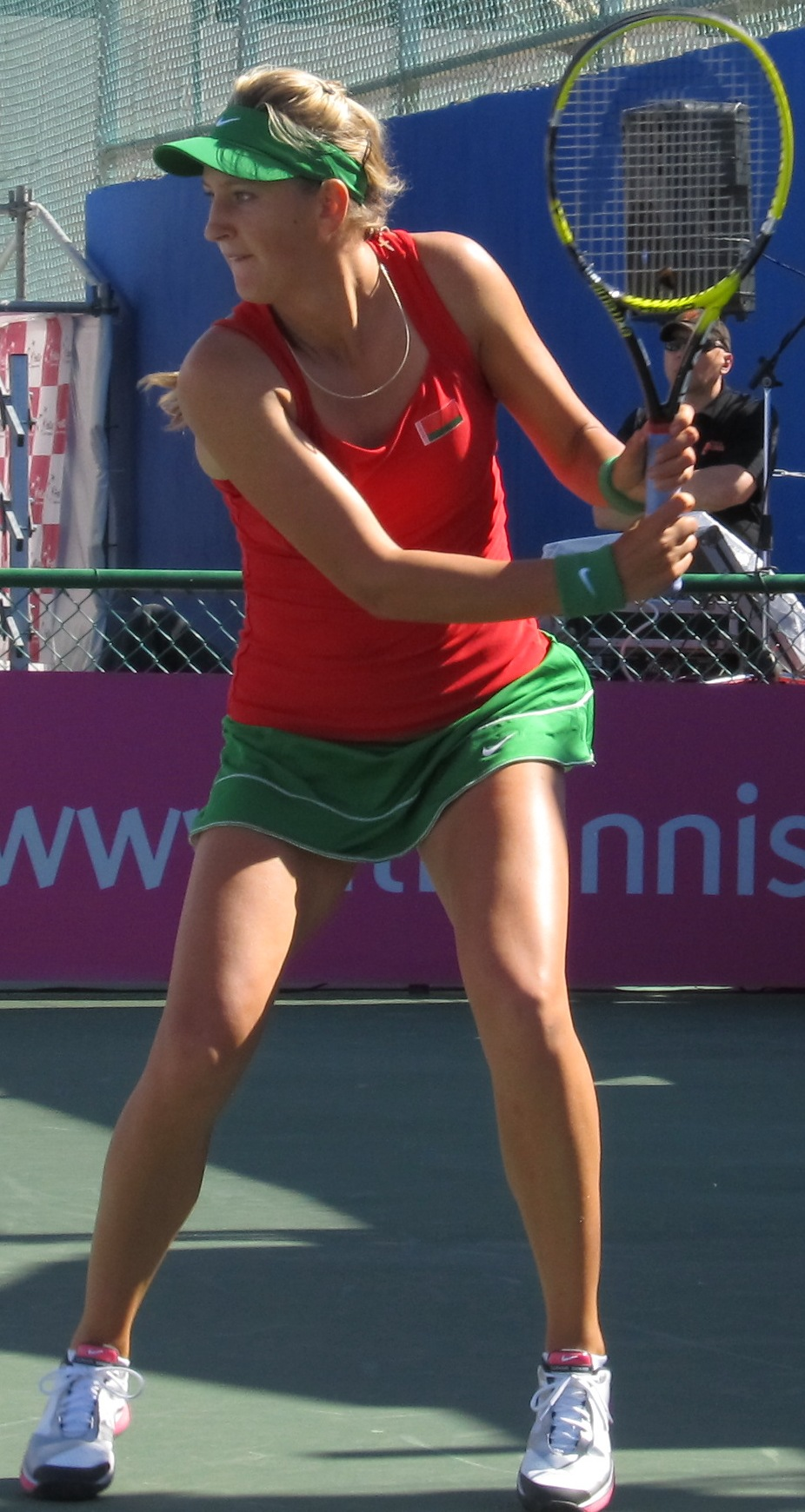 The tennis player Victoria Azarenka of Belarus during her match against Sybille Bammer of Austria in the 1st day of Fed Cup Group I 2011 Europe/ Africa in Eilat, Israel